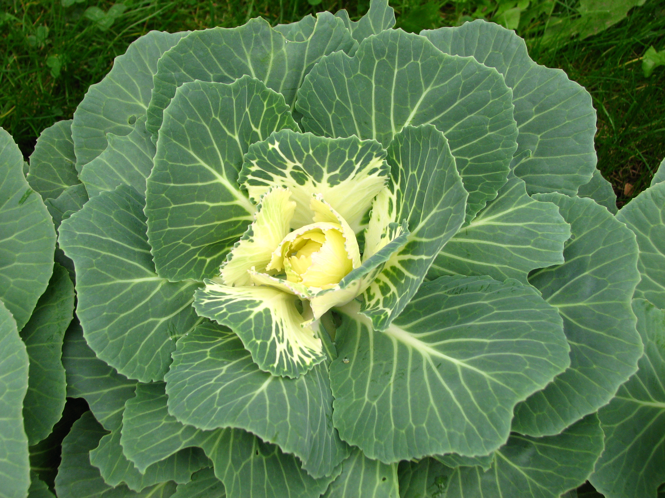 Flower beds in park Kolomenskoye (Moscow). Brassica oleracea